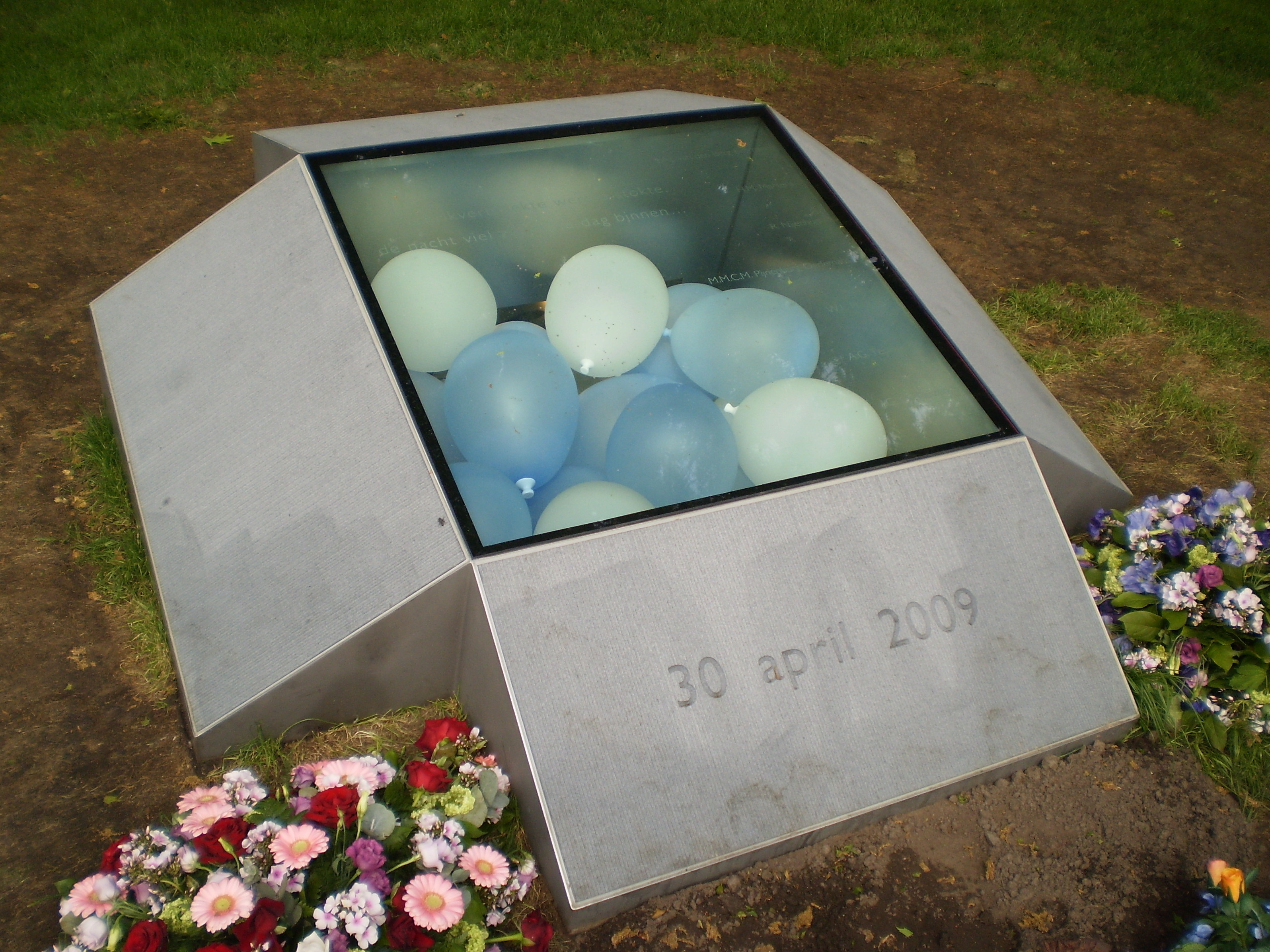 Monument in Apeldoorn, the Netherlands, remembering the 2009 attack on the Dutch royal family there. A work by glass artist Menno Jonker; unveiled 29 April 2010